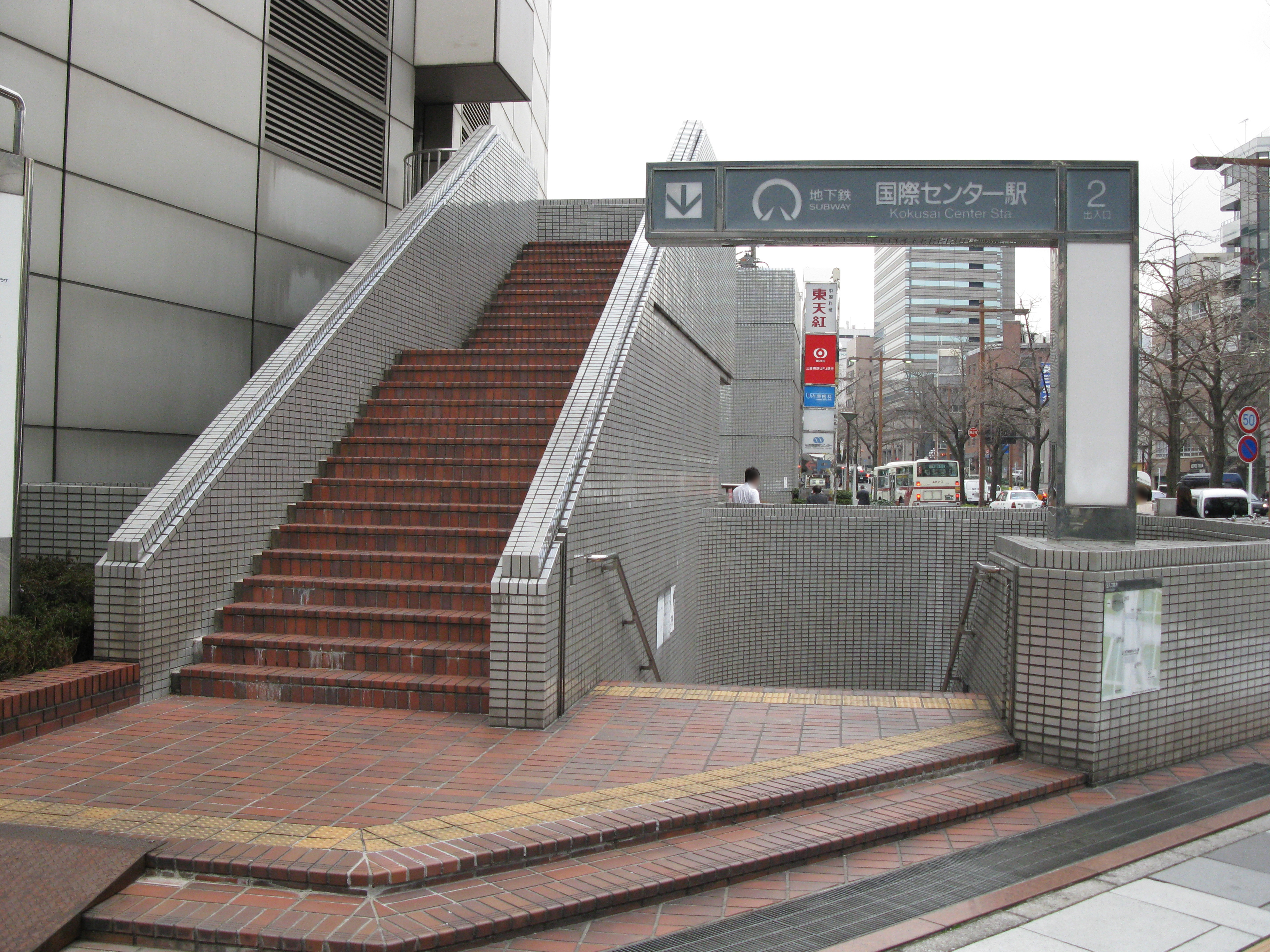 The no.2 entrance to Kokusai Center(International center) Station on the Nagoya Municipal Subway Sakura-dōri Line